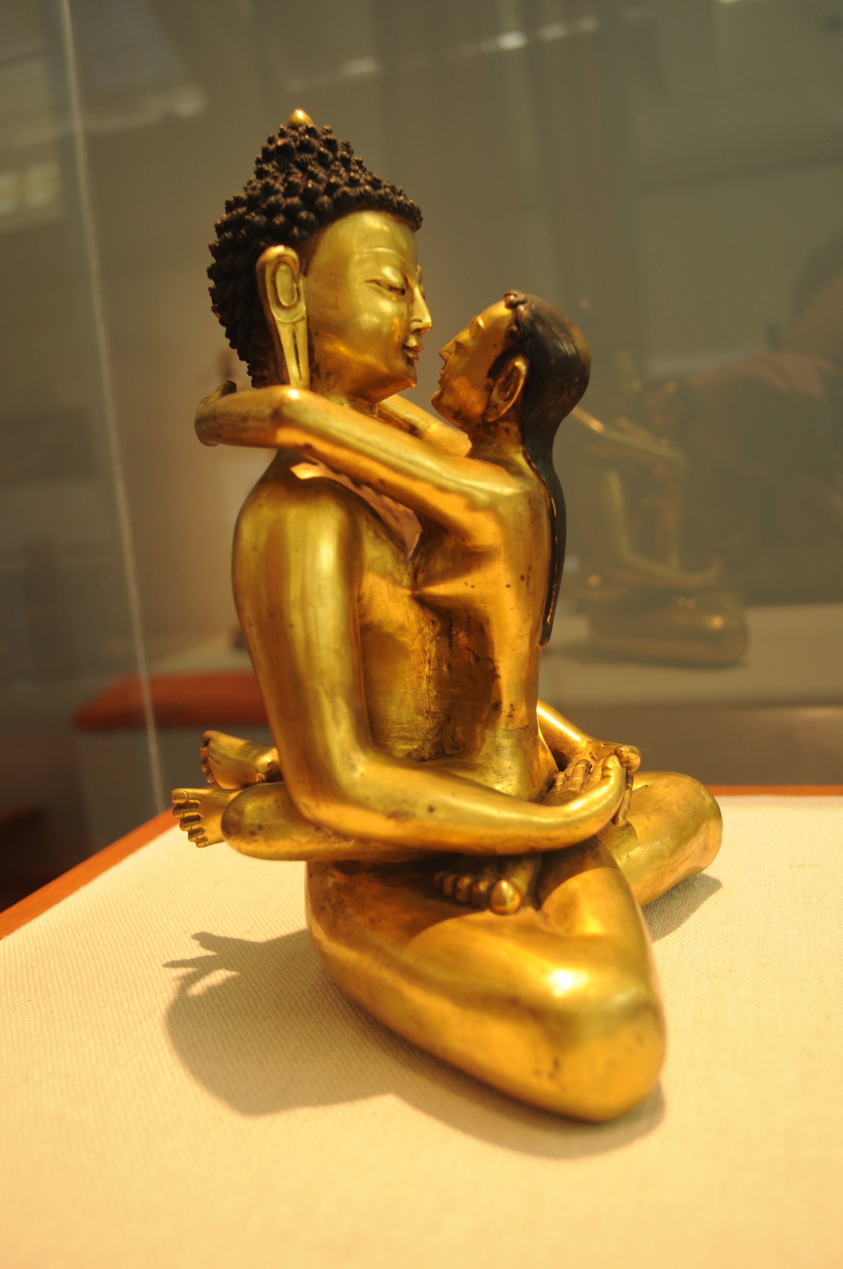 Samantabhadra (Ever-Perfect One) or (Tibetan) Kuntuzangpo, Tibet, early 20th century, copper alloy, gilt, paint. Accession number 2011.77. Part of the tantric art exhibit Honored Father-Honored Mother, Trammell & Margaret Crow Collection of Asian Art, Dallas, Texas, USA.